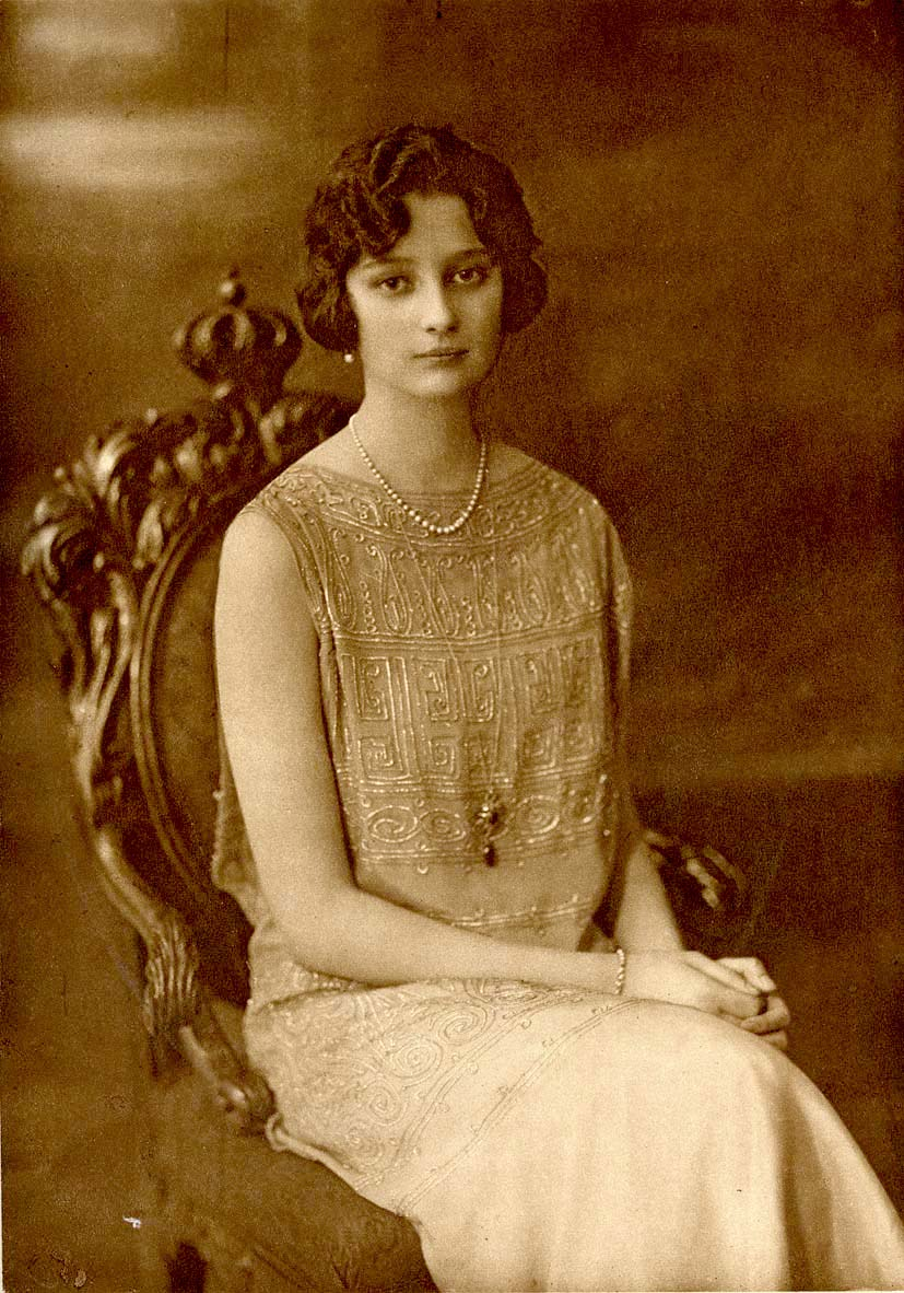 Astrid of Sweden (1905-1935), princess of Sweden, queen of Belgium